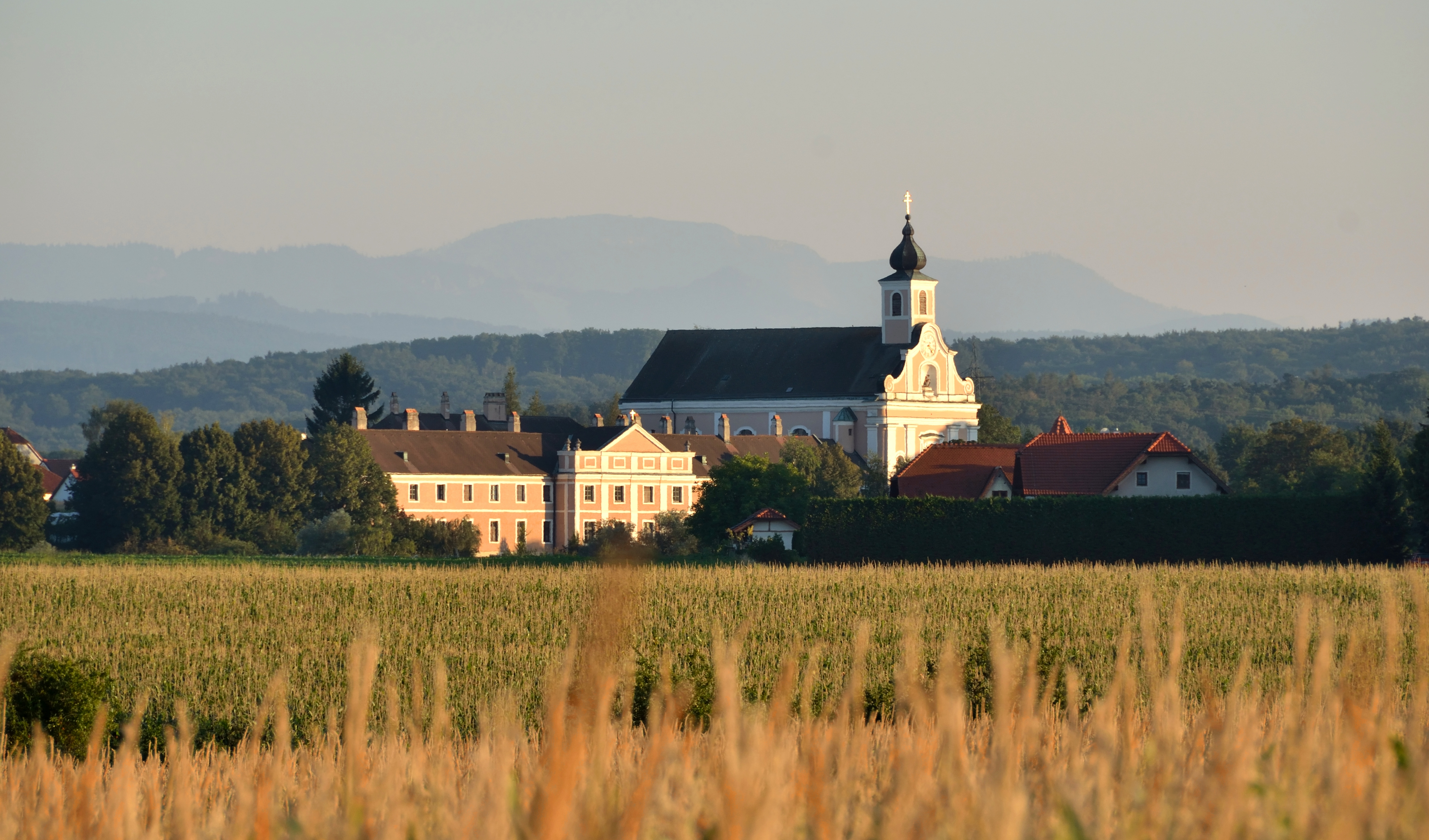 View on Maria Jeutendorf, municipality of Böheimkirchen, Lower Austria, with the carmel (former monastery) and the parish church zur schmerzhaften Muttergottes.